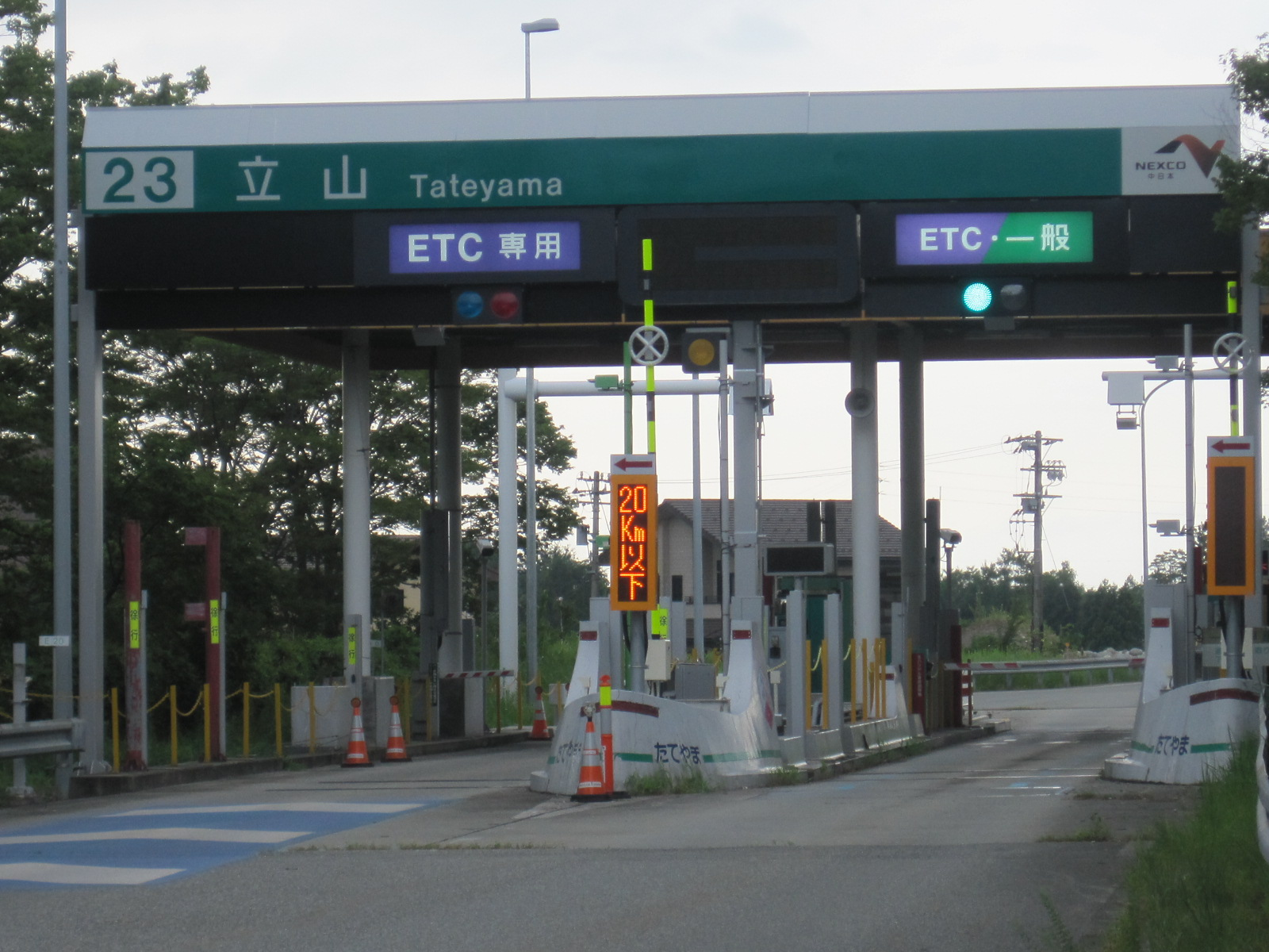 Tateyama Inter Change (Tateyama town, Toyama prefcture)